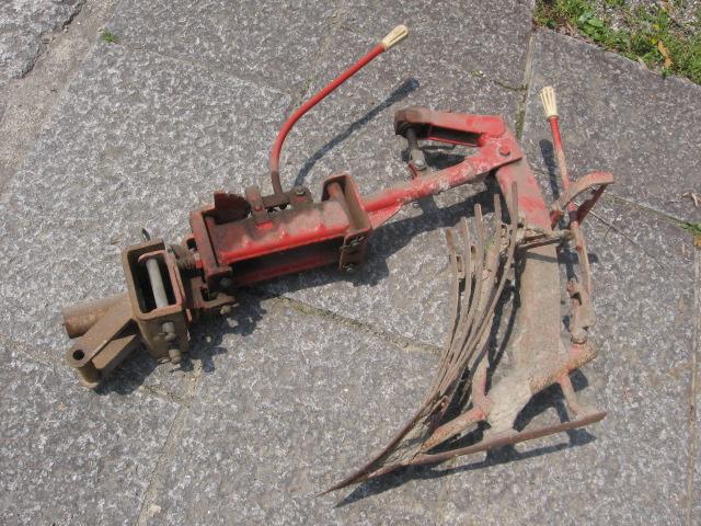 An old type plow for cultivator or tiller, Japanese made (model: MR-35, manufactured by Matsuyama-suki seisakujo).